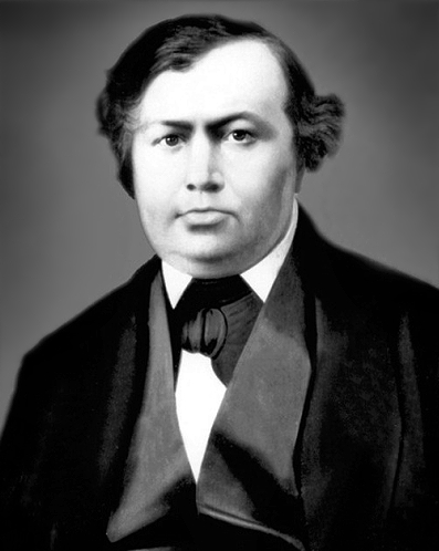 Charles Roulier (ru: Карл Рулье). Russian scientist (1814-1858). Photo.